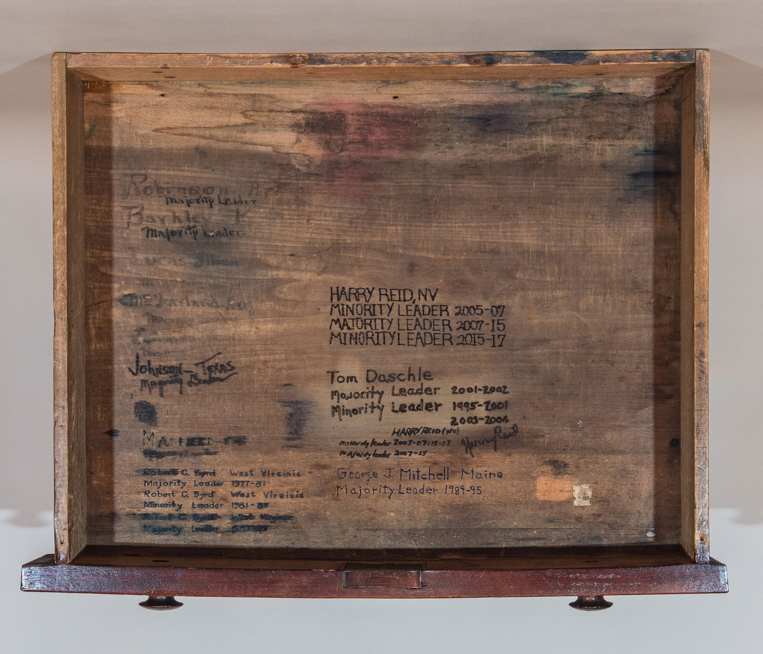 Senate desk X, used by Democratic leaders (Joseph T. Robinson, Alben W. Barkley, Scott W. Lucas, Ernest McFarland, Lyndon B. Johnson, Mike Mansfield, Robert Byrd, George J. Mitchell, Tom Daschle and Harry Reid)